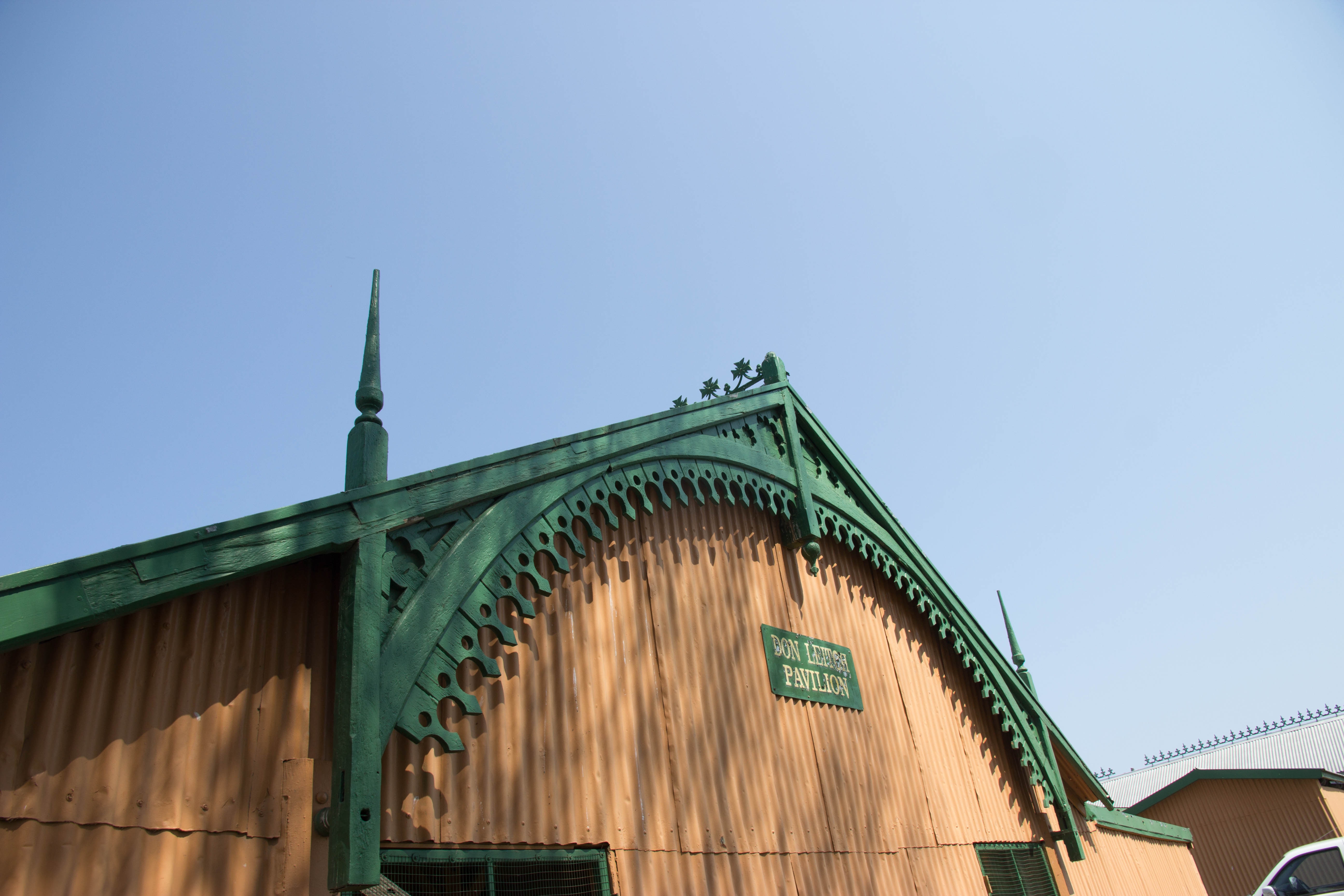 Bathurst Showground in Bathurst, New South Wales